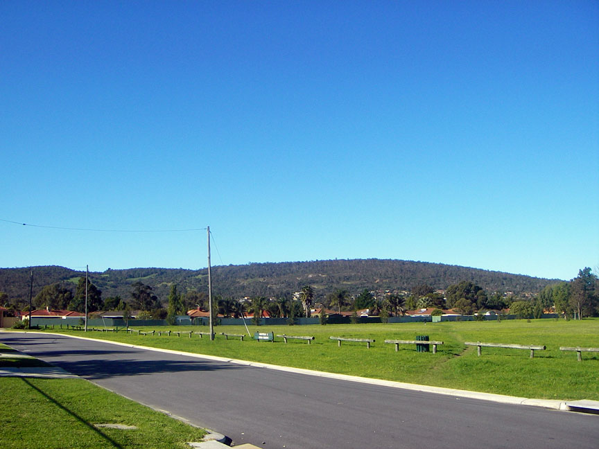 Darling range taken from Kelmscott